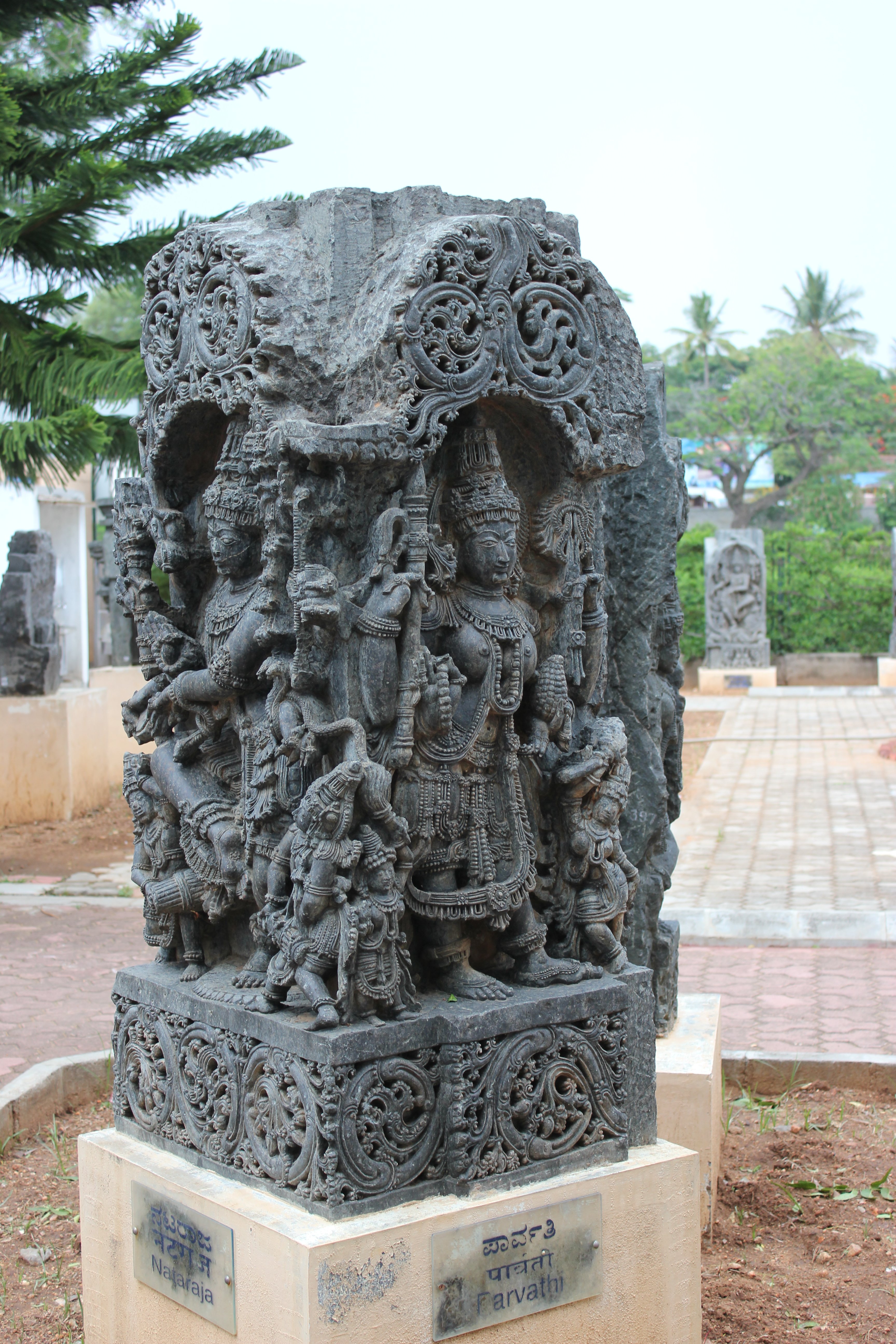 These photographs were taken by me at the ASI museum at Halebidu next to the Hoysaleshwara temple .